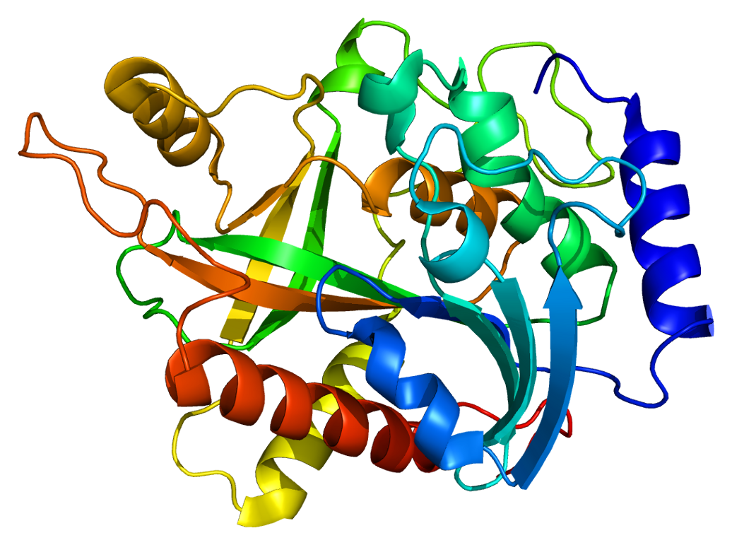 Structure of the NP protein. Based on PyMOL rendering of PDB 1m73.